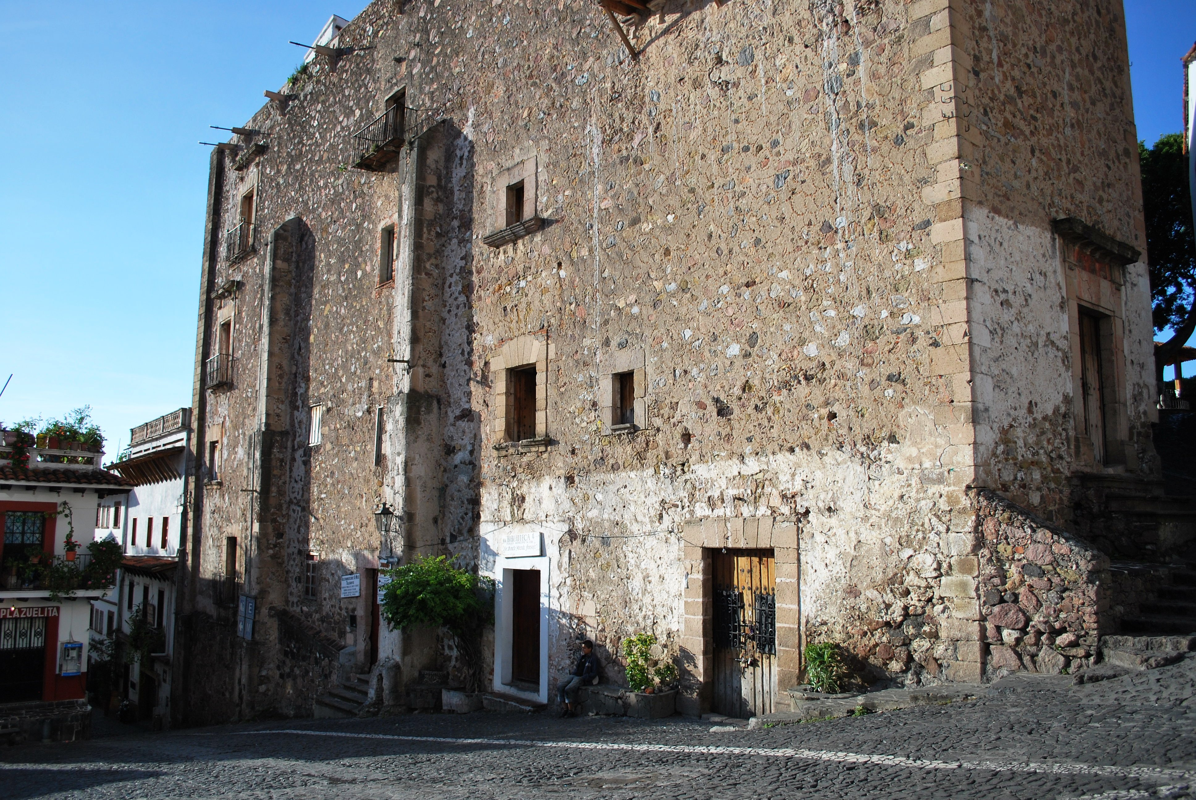 Back of the Borda House near the main plaza of Taxco de Alarcon, Guerrero, Mexico